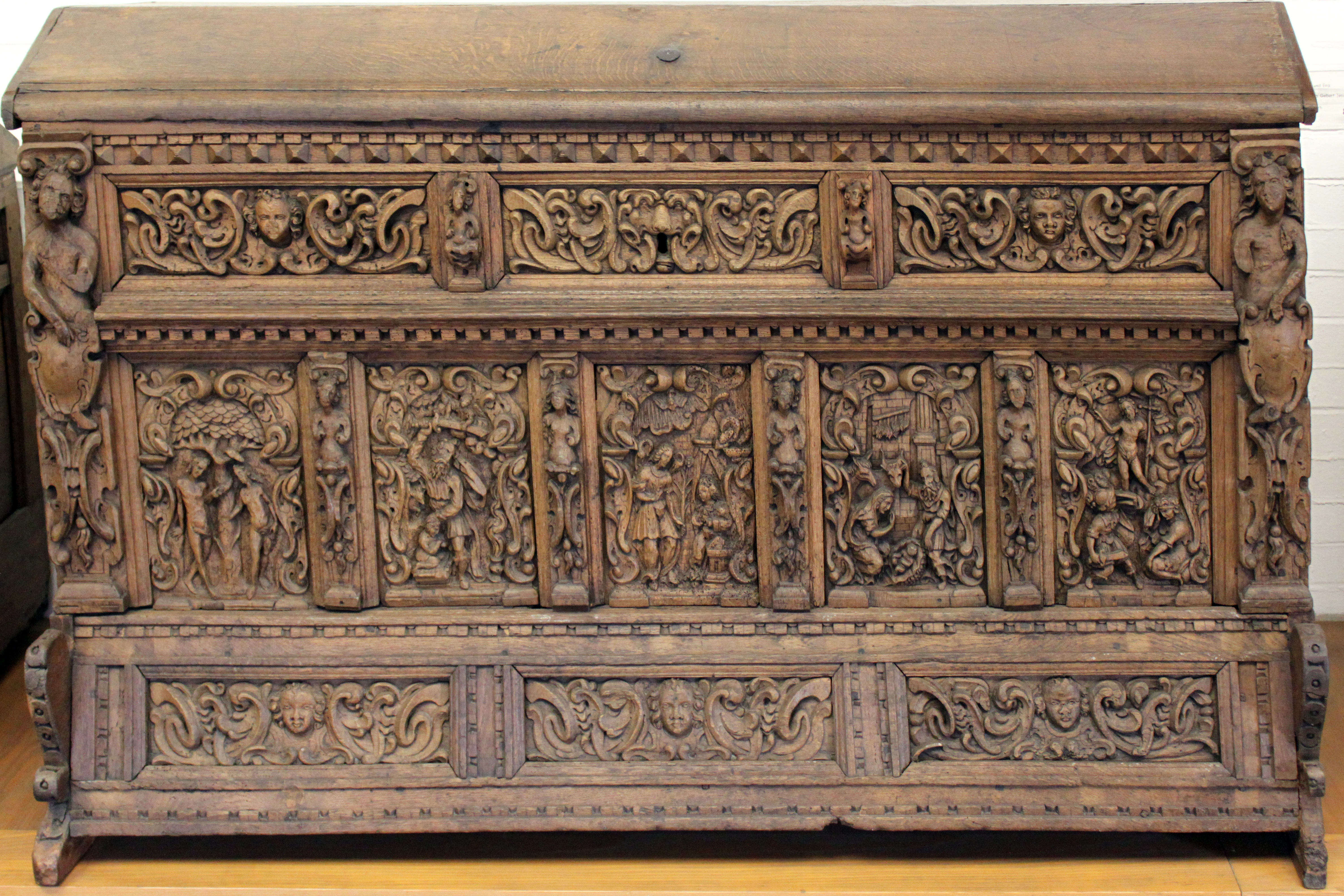 Chest. Representations of Adam and Eve, Sacrifice of Isaac, Annunciation, Birth of Jesus, the resurrection of Christ; Oak, carved, about 1635; Germanic National Museum in Nuremberg